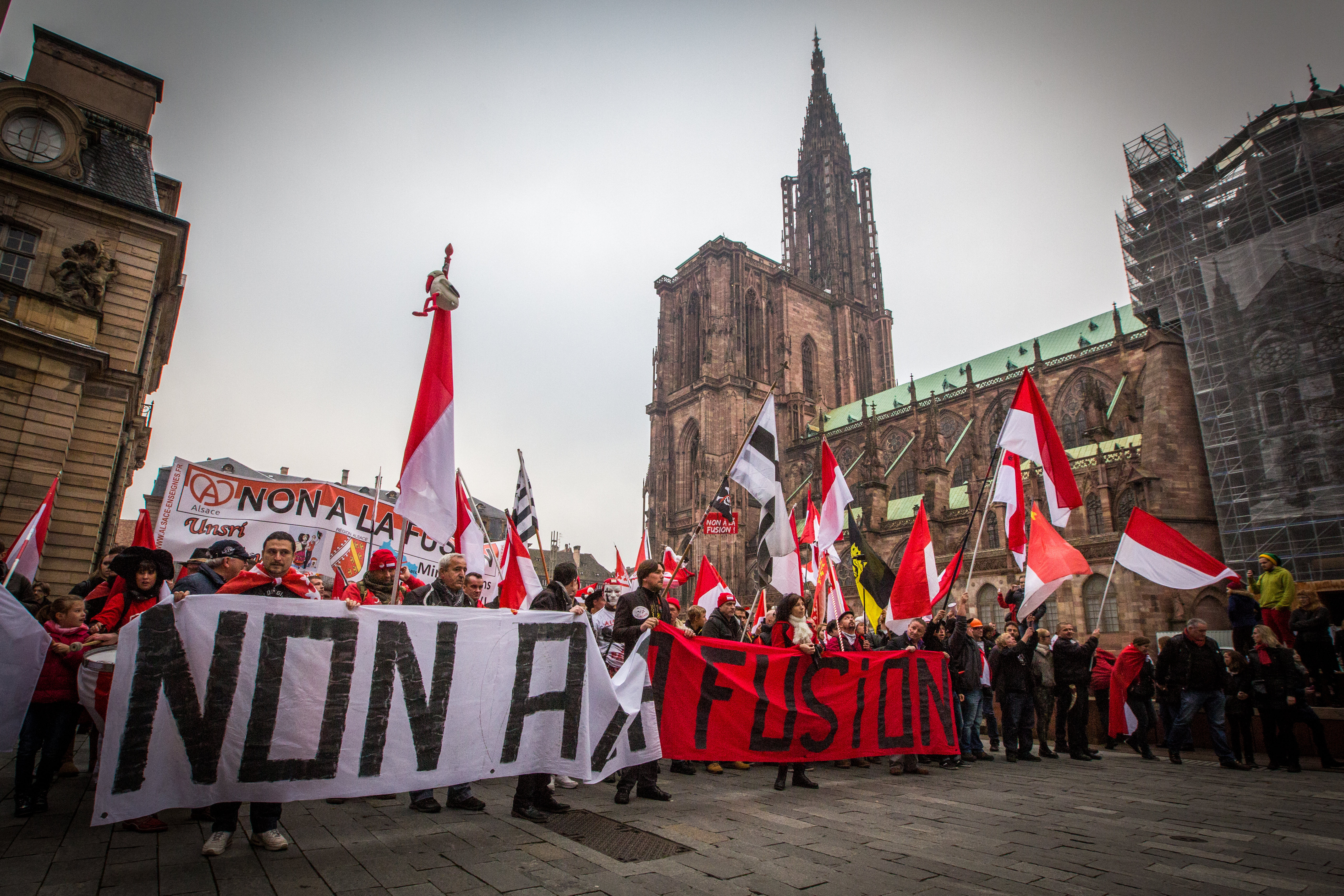 A demonstration in Strasbourg on 23 November 2014 against the merger of Alsace, Champagne-Ardennes, and Lorraine regions to form a new region. The merger is part of a territorial reform to reduce the number of regions in France. The merger has been especially unpopular in Alsace, which has a strong cultural identity. "Non a la fusion" is "No to the merger".